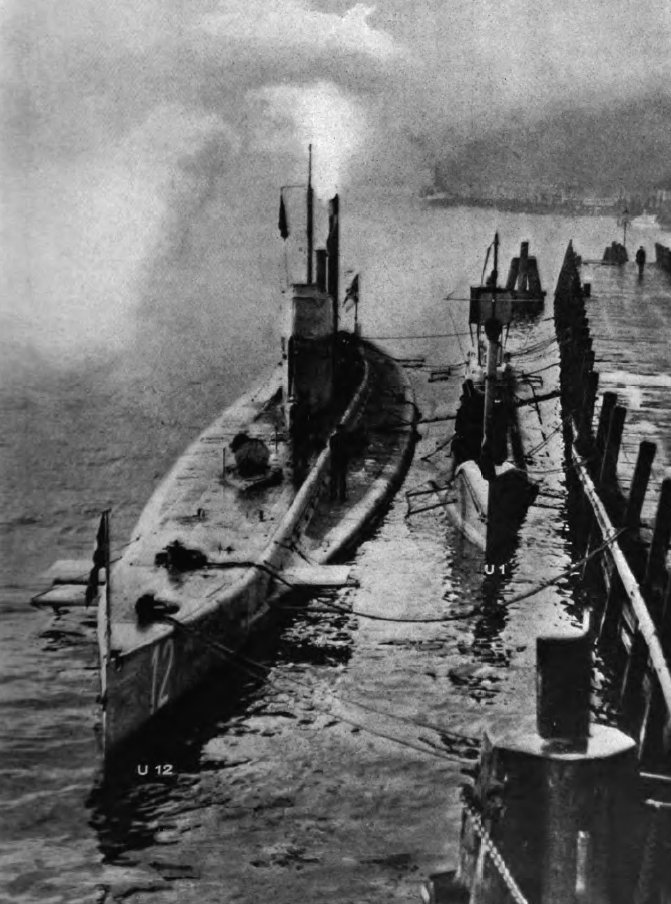 Photograph of German submarines U-12 and U-1 circa 1915.